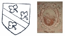 Coat of Arms of Luci, tuscan family from Colle Val d'Elsa (Siena)